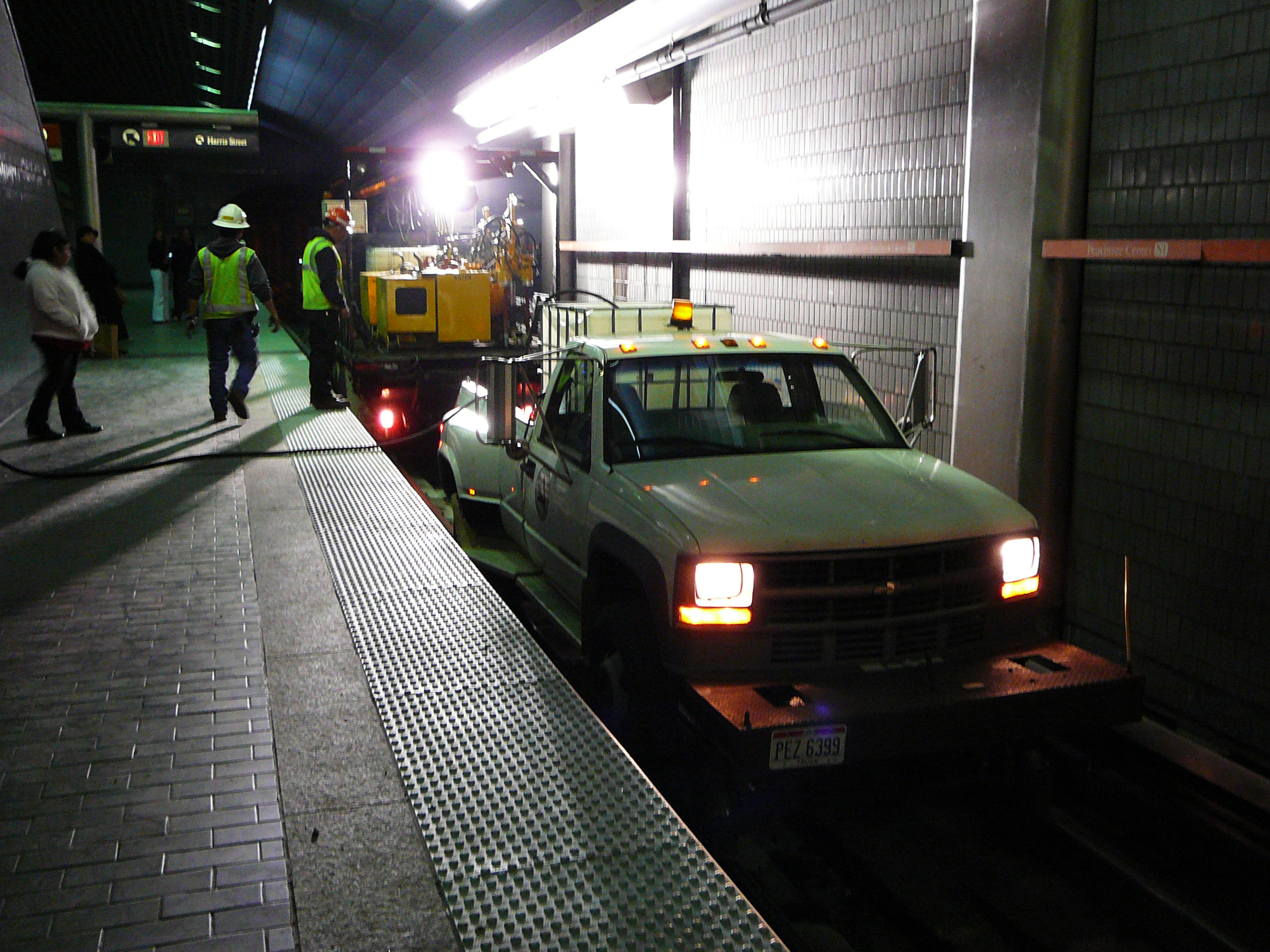 "... is that the train...?" Major MARTA construction and delays - what else is new?